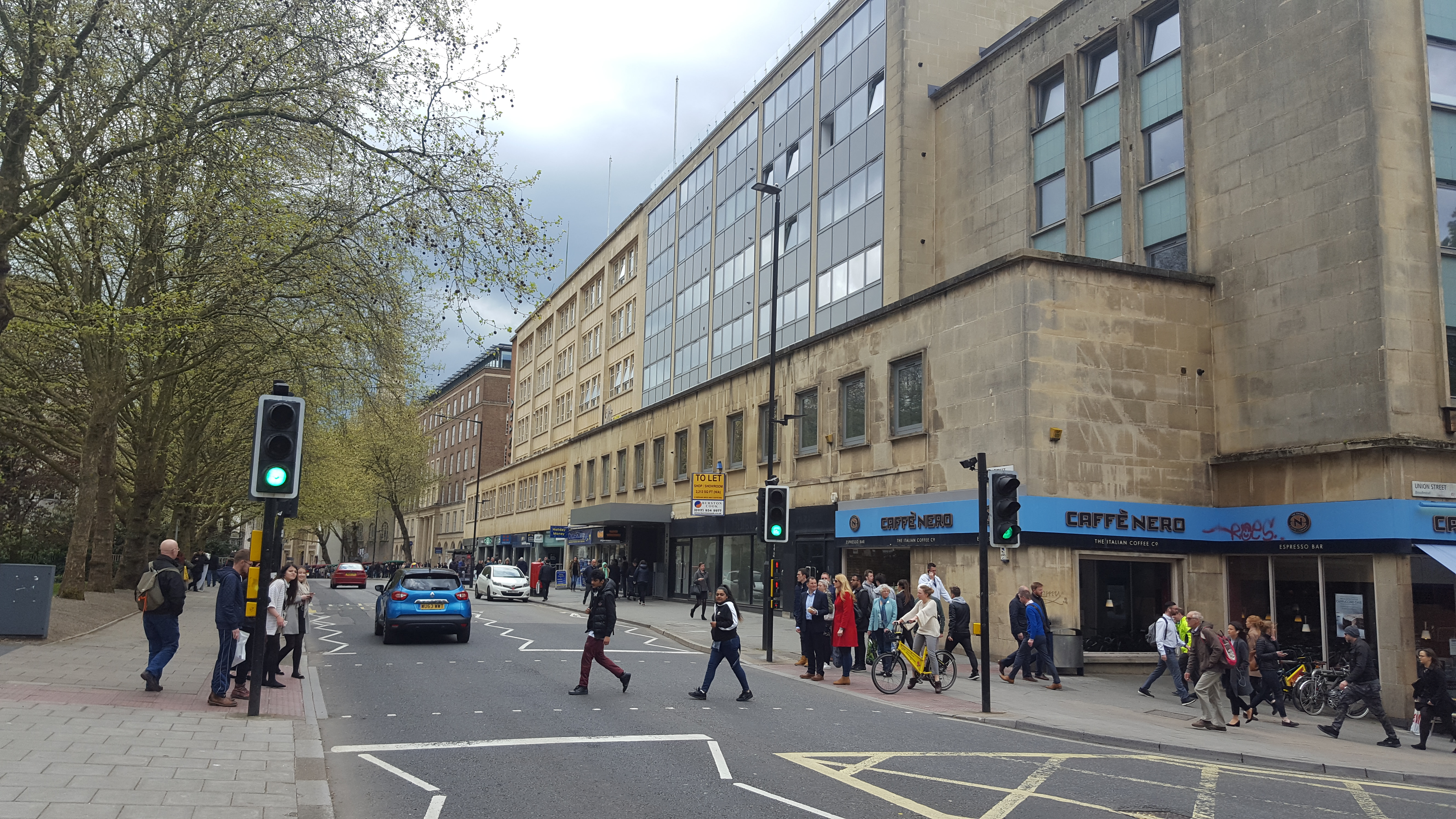 Wine Street, Bristol, looking towards central crossroads